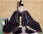 Niwa Nagaakira, lord of the Nihonmatsu domain.